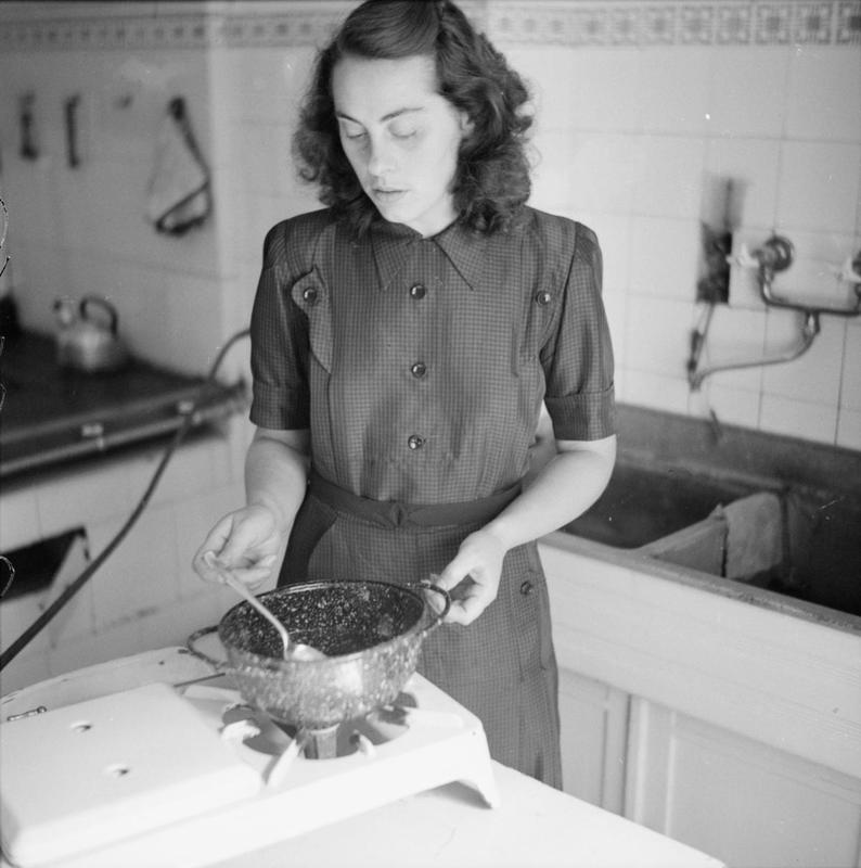 Germany Under Allied Occupation Salvaged German steel helmets in a Berlin factory being made into saucepans. Here a German housewife uses one of the finished helmet saucepans in her kitchen.